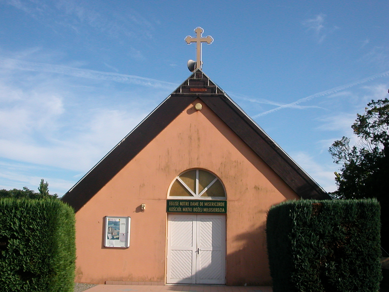 Notre-Dame-de-Miséricorde polish Church of Couëron